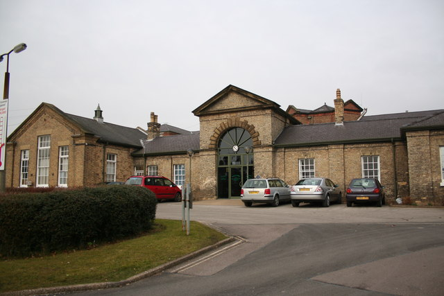 Louth Workhouse. It now serves as the entrance to Louth County Hospital, but this austere portico was the entrance to Louth Workhouse, built in 1837 to the design of George Gilbert Scott at a cost of £8,000. The three storey building behind housed most of the 300 paupers but is now part of the hospital.